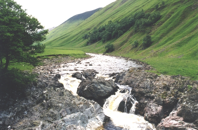 Glen Tilt. The line of the glen follows a major fault, the Loch Tay Fault, which marks the division between two major geological blocks